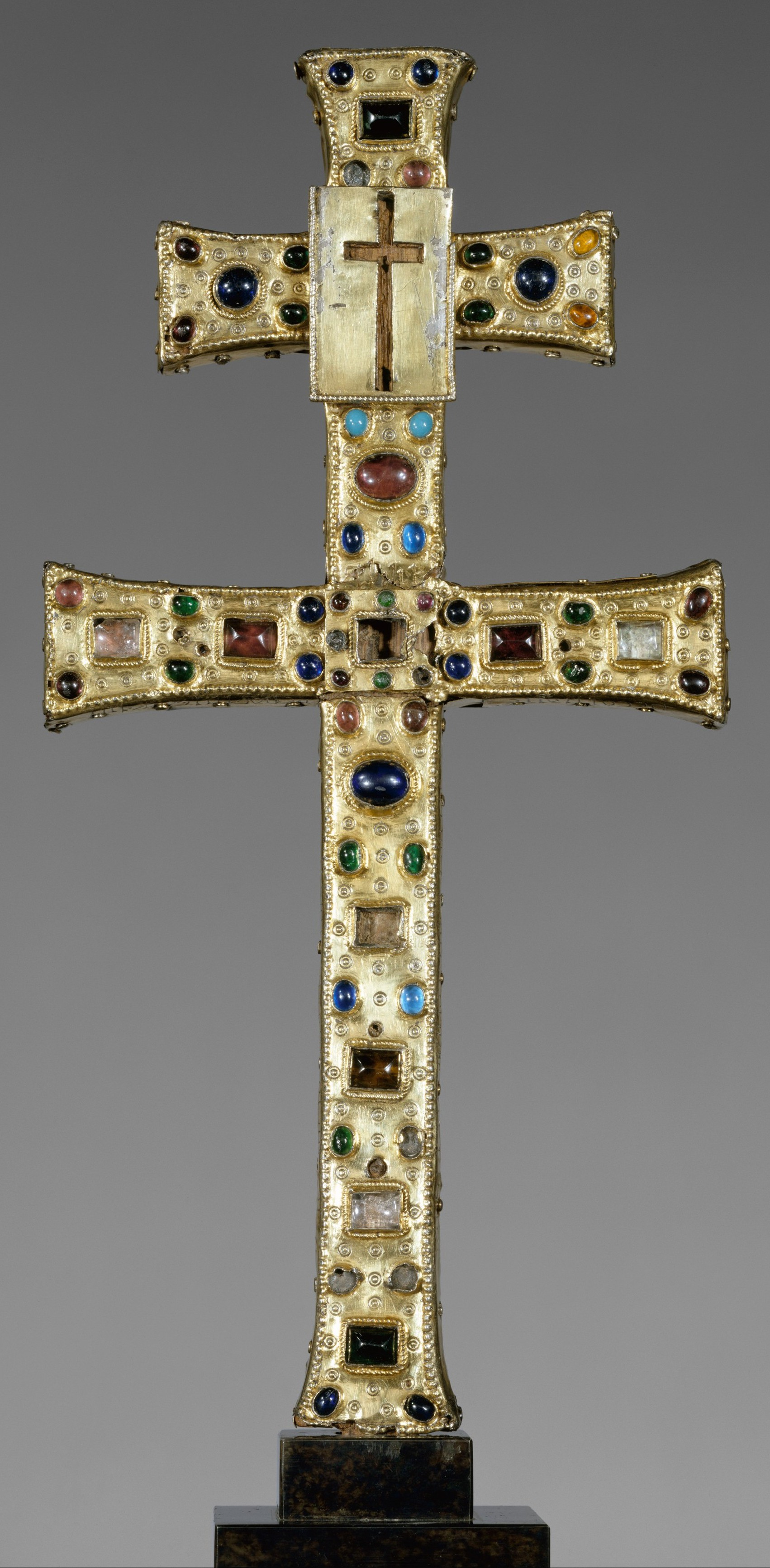 Silver gilt, rock crystal, glass cabochons; wood core